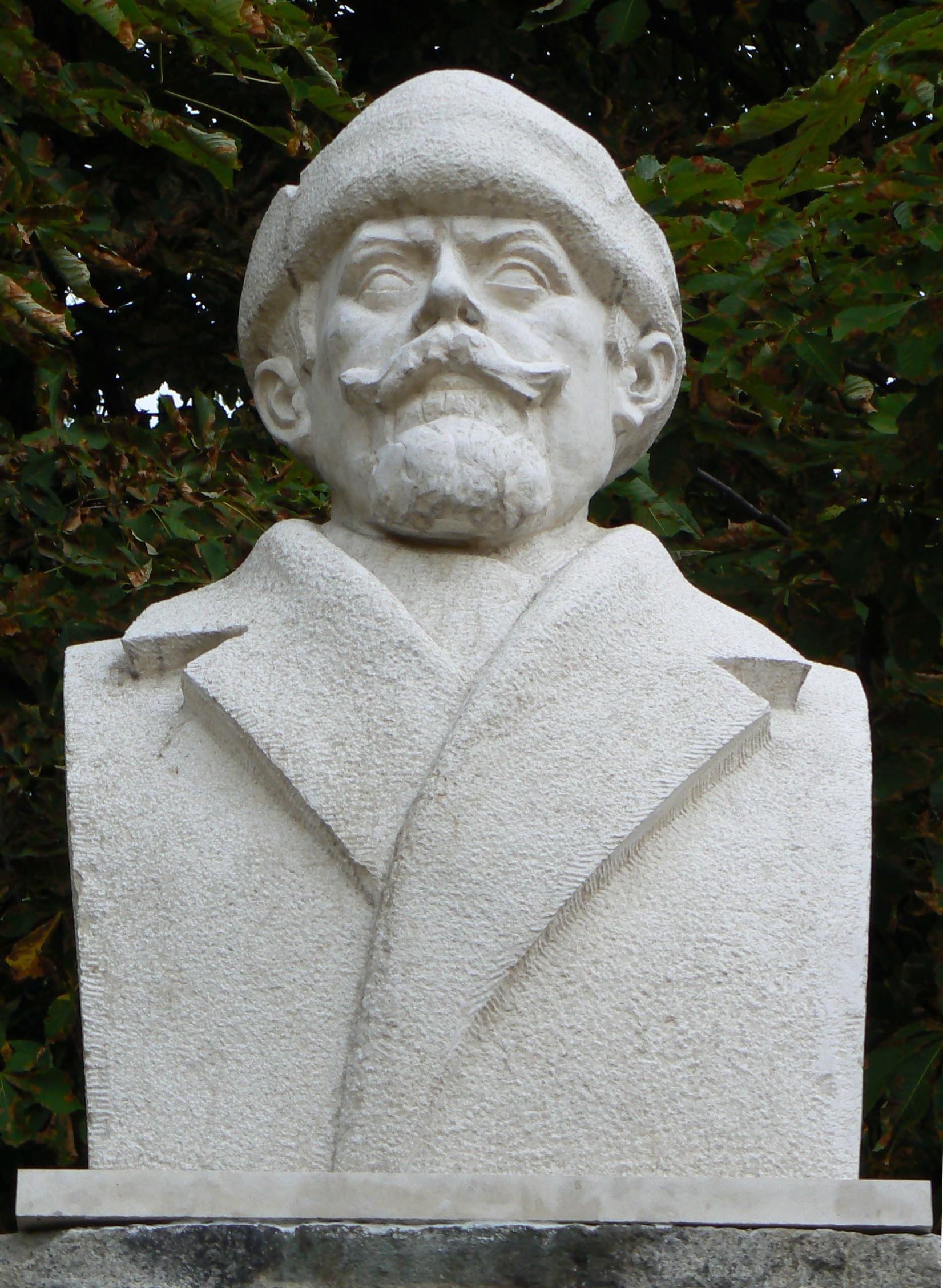 Monument of Nikola Rakitin in village Trudovets, Bulgaria